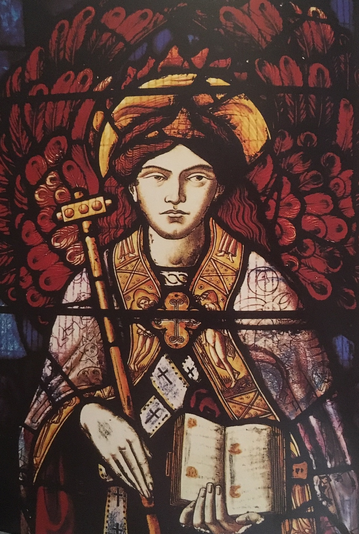 The mighty Archangel Uriel, Enoch's 'star guide' through the cosmos and, traditionally, the seraph set to guard the Edenic paradise. Bearing a sceptre of power, his garments vested with astronomical signs, this 'illuminator of the mind' holds one of his symbols, a secret book of Wisdom. Nineteenth century stained glass window by Ford Madox Brown, the Holy Trinity Church, Tansley, Derbyshire, England.